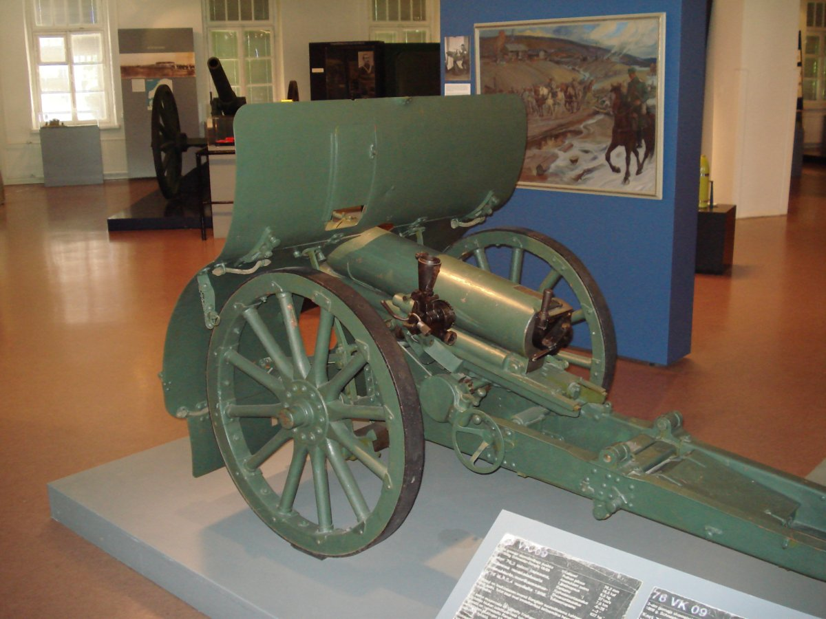 Russian 76 mm mountain gun Model 1909, displayed in Finnish Artillery Museum. Museum description: A 76,2 mm modification of a French Schneider-system mountain gun 75 m.p.c. 4 from year 1909. (3-dm gornaja skorostrelnaja pushka obr. 1909 g. Schneider-Danglis 06/09) The gun has a barrel designed by Greek Colonel Danglis. The barrel can be broken into two components. The parts of the gun can be broken into seven mule loads. The 75 mm version of this gun has been in service in Greece, Bolivia and Peru. In Russia a bit renewed version was used as late as WW II. Only a small portion of the guns has been manufactured in France, most of them in Russia. Russian troops had these mountain guns at their disposal in Finland. In the 1918 War of Independence they were used by both Red and White artilleries. As a war bounty Finnish troops had a total of 11 pieces of 76 mm Mountain Guns, which were used as training pieces up to the year 1924. In the Winter War in 1939-1940 the six worn-out guns were not in use anymore. In 1941 14 more pieces were captured by Finnish troops. This particular piece had its gun-carriage repaired by the Finnish State Gun Factory or VTT in 1942 and 1944. Replacable barrel: manufactured by Russian Putilov in 1914. Photo taken on June 18, 2006. Source: Photo by me, User:Balcer.